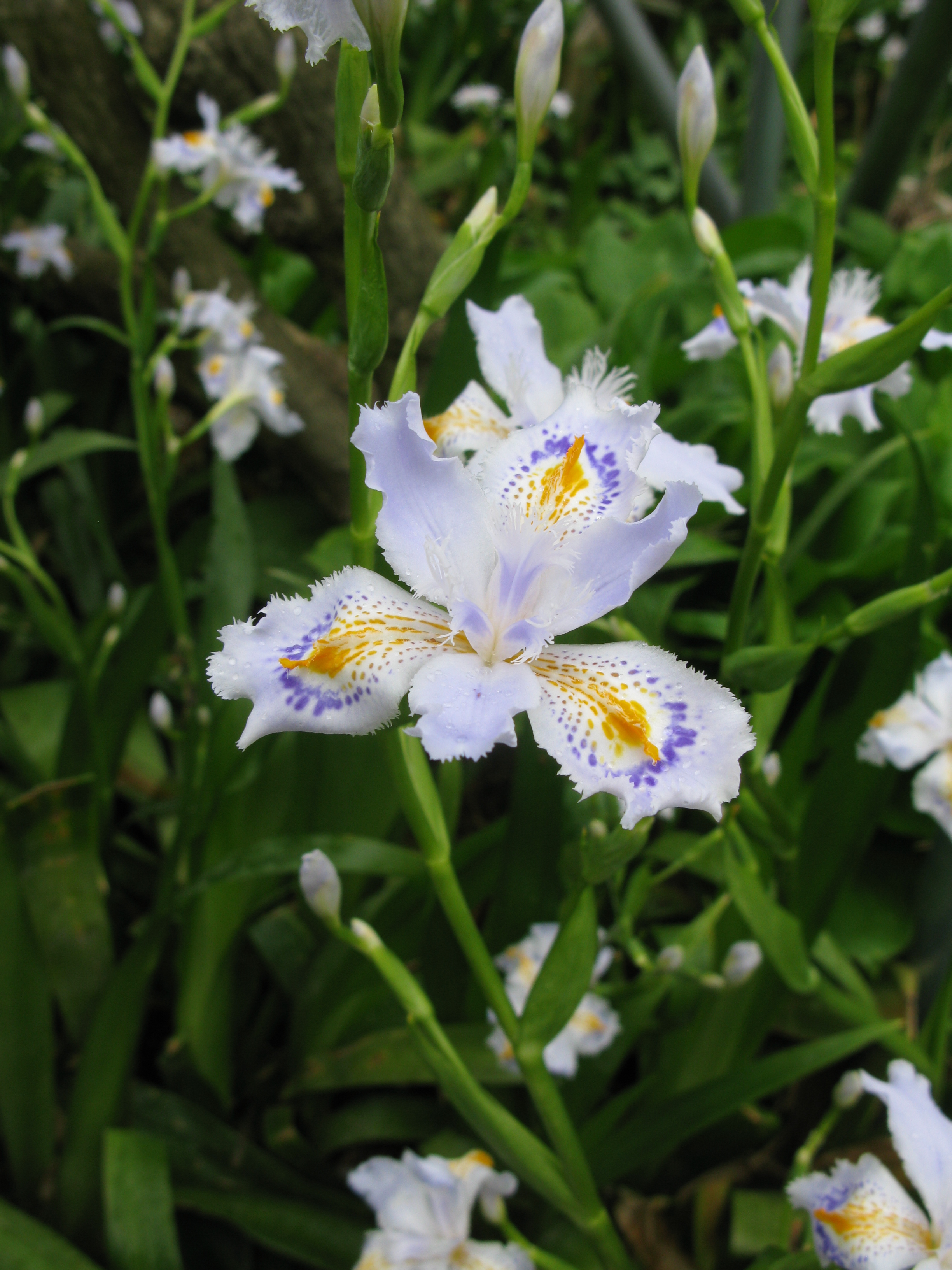 Iris japonica, Aizu area, Fukushima pref., Japan